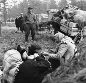 Photography of Karelian refugees.